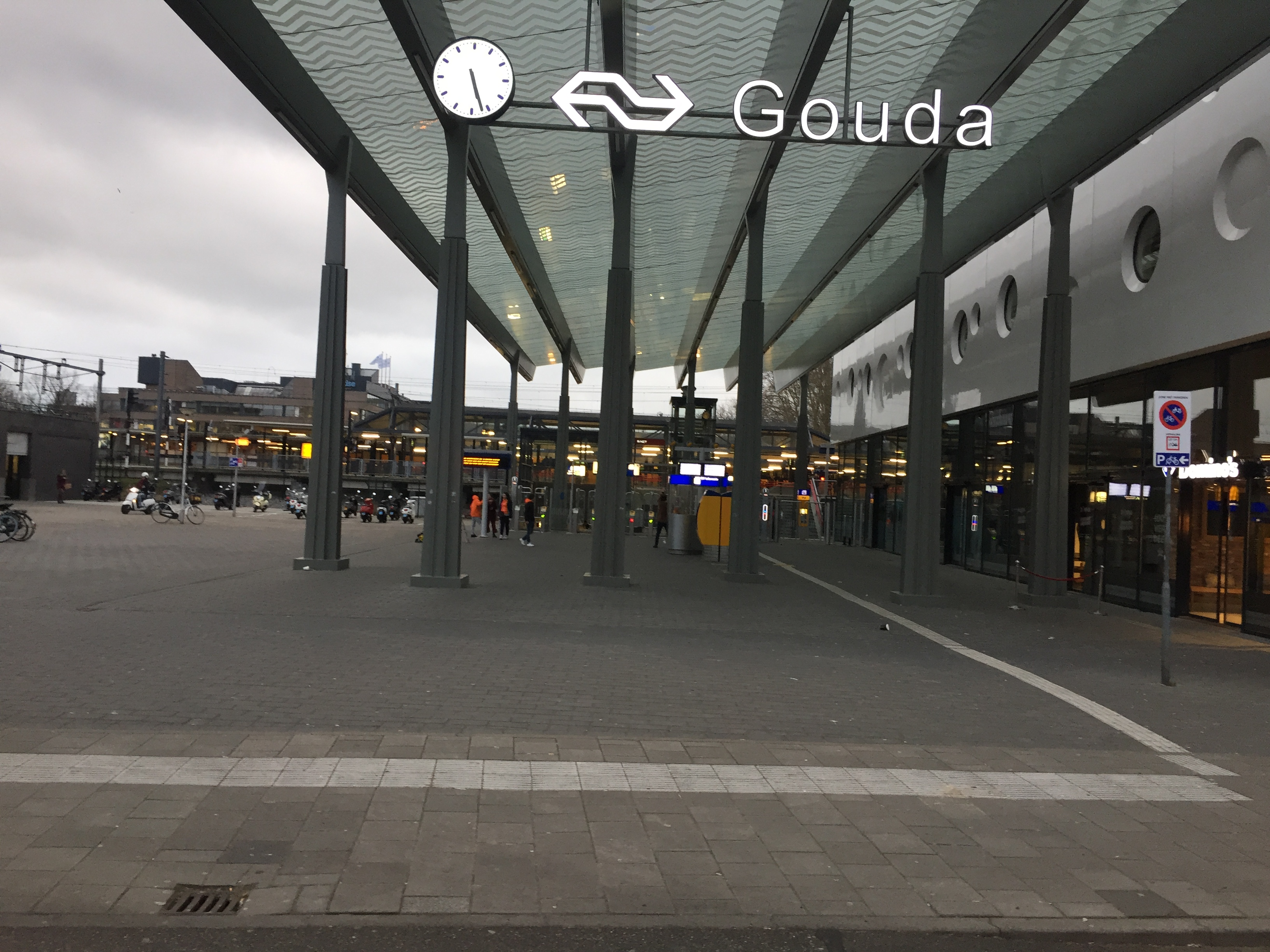 Exterior of Gouda station, Netherlands